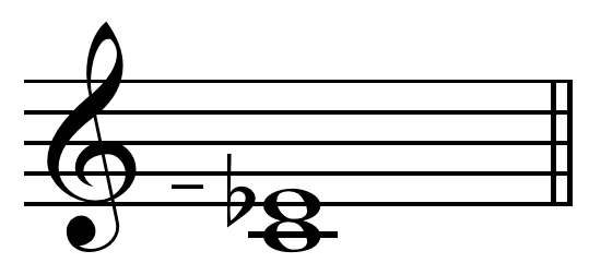 Pythagorean minor third (semiditone) on C = E♭- (Ben Johnston's notation). 32:27 = 294.13 cents. Limit: 3-limit.